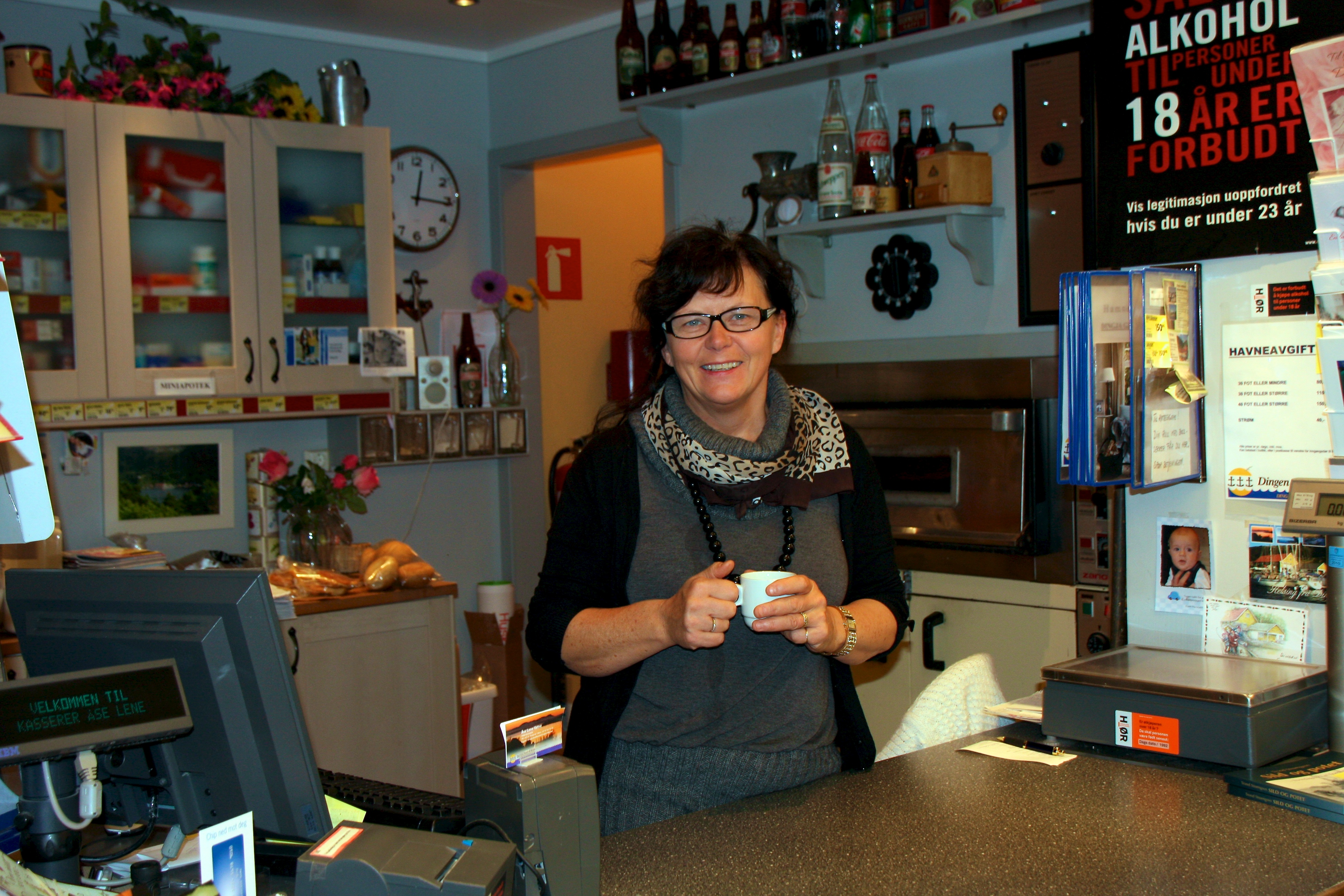 Gulen municipality, Norway.